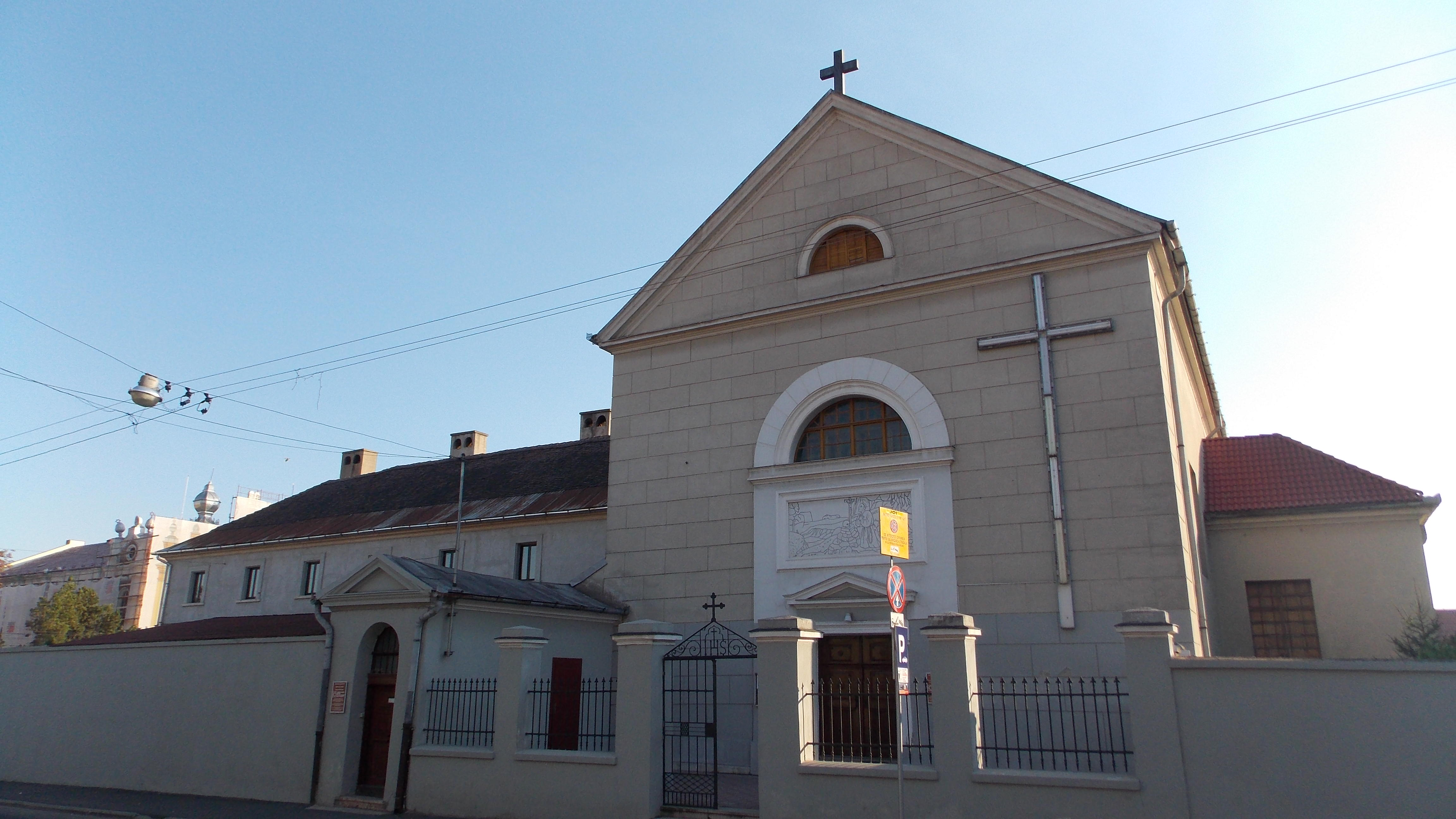 Roman catholic church of the Capucin Monastery - Oradea 01